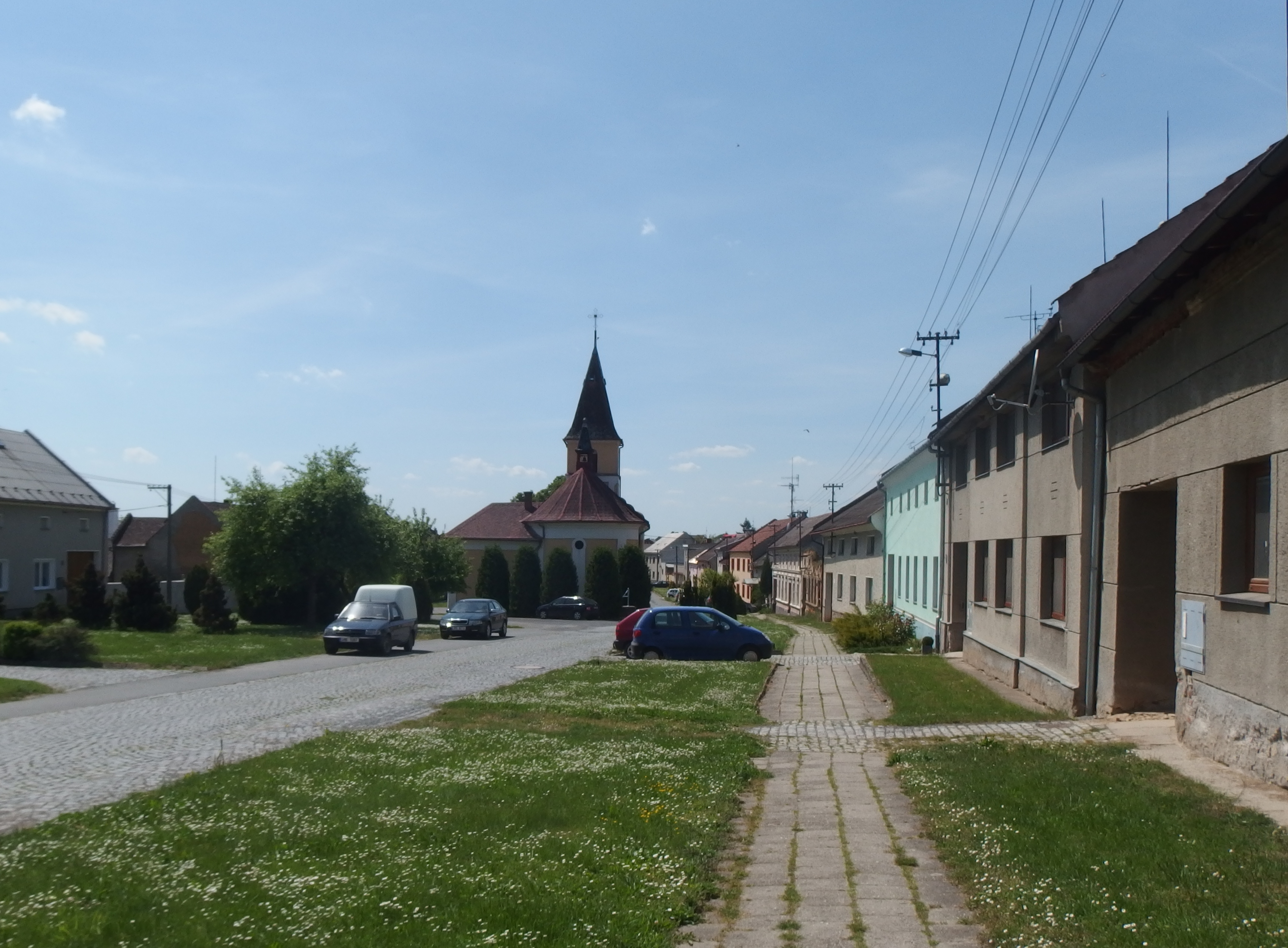 Krčmaň, Olomouc District, Czech Republic. Church of Saint Florian.